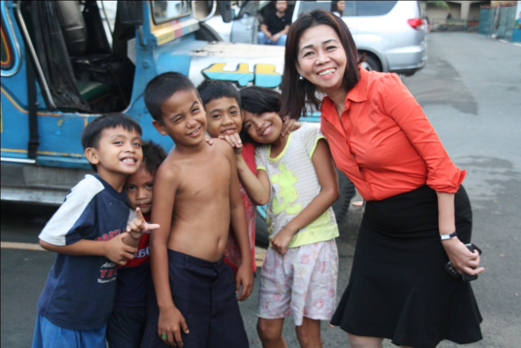 Nimfa Cuesta Vilches (a Senior Deputy Court Administrator (DCA) at the Office of the Court Administrator (OCA), Supreme Court of the Philippines) with Filipino children.